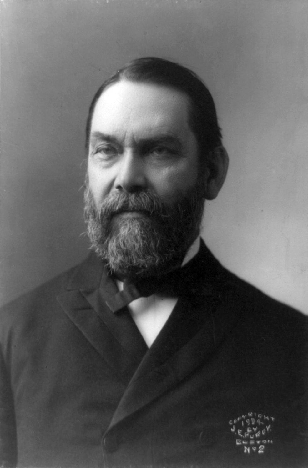 Marcus Perrin Knowlton, Chief Justice of the Massachusetts Supreme Judicial Court (1902–1917)